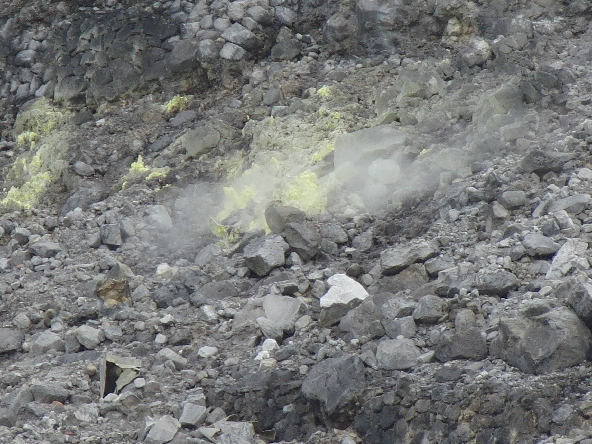 Fumarole with sulfur